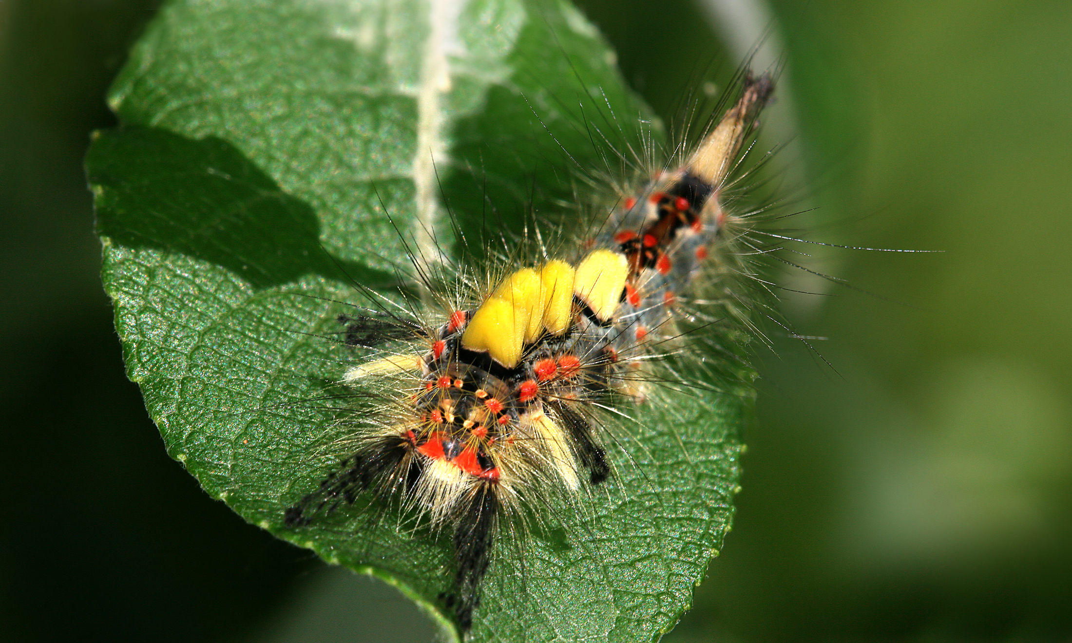 Description: The rusty tussock moth or vapourer moth, Orgyia antiqua, is a moth in the family Lymantriidae that was native to Europe but that is now transcontinental in distribution in the Palearctic and the Nearctic regions.[1]